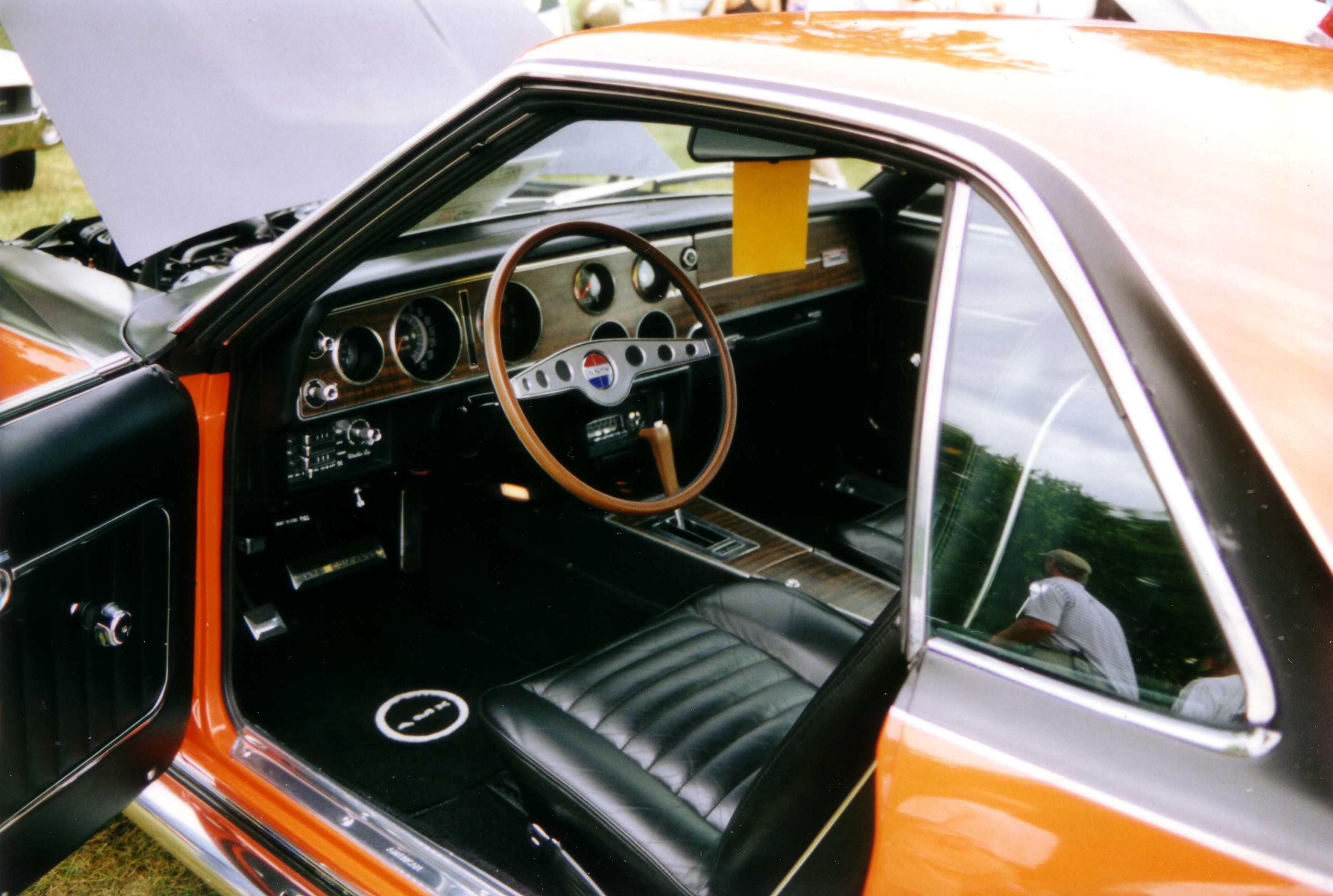 Interior view of a 1970 AMC (American Motors Corporation) AMX sports coupe finished in Big Bad Orange (BBO) with the black "shadow mask" option.